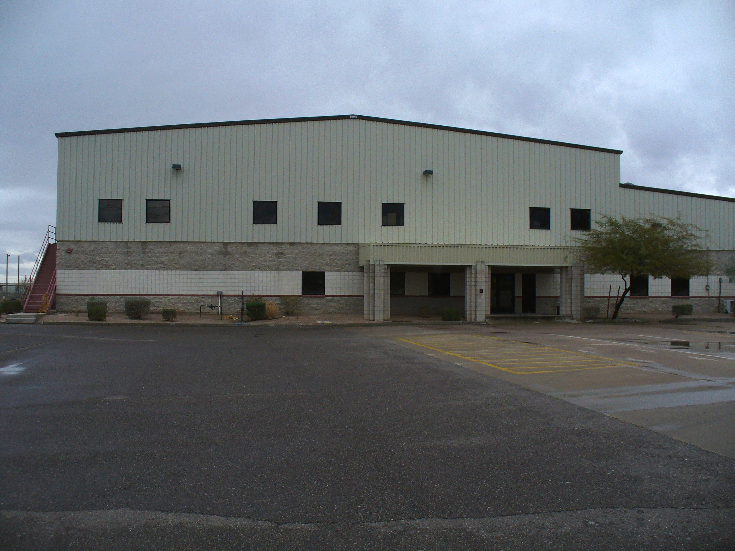 Triumph Fabrications in Chandler, Arizona